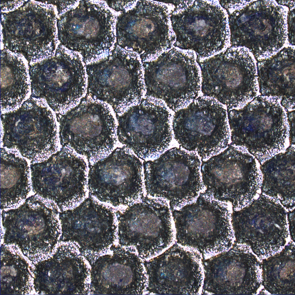 Optical microscope true-color image of the hexagonal cells (dimples) engraved into the surface of an anilox roll. Each cell is about 100 microns across. Image taken using an Olympus OLS4100 confocal laser scanning microscope at 432x magnification.